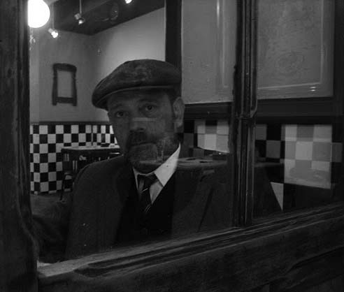 The writer Luis M.ª Díez Merino.